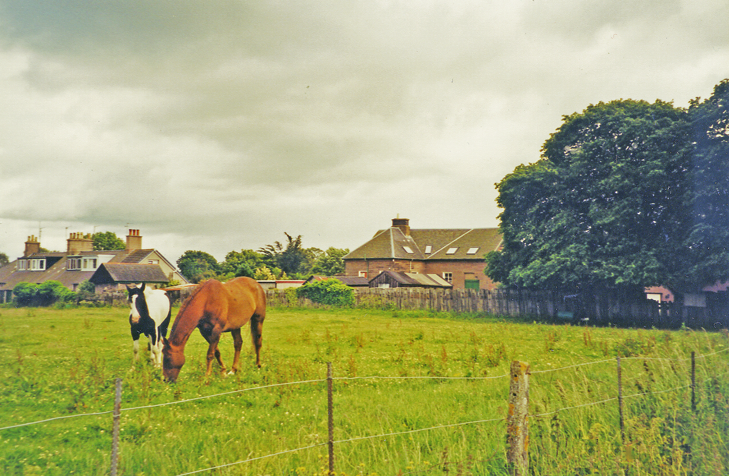 Site of former Dubton Junction station, 1997. View eastward, towards Kinnaber Junction and Aberdeen, also Montrose to the right: ex-Caledonian Railway Perth - Forfar - Kinnaber Junction - Aberdeen main line, junction for Montrose (Cal.). The station was closed to passengers 4/8/52 along with the service to Montrose, which since 30/4/34 had used the ex-NBR station at Montrose, goods ceasing from 21/6/63; Dubton closed to goods 15/6/64; the main line Perth (Stanley Junction) - Kinnaber Junction was closed entirely from 4/9/67, after which all traffic for Aberdeen ran on from Kinnaber by the ex-NBR route from Montrose, Dundee etc. [There is no sign of the station or railway in this photograph, so I may have been slightly misplaced][?]